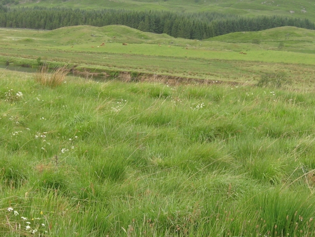 Glen Dochart, river dochart just visible, hairy highland cattle beyond